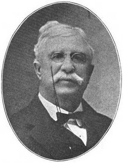 Hosea Townsend, Colorado Congressman.